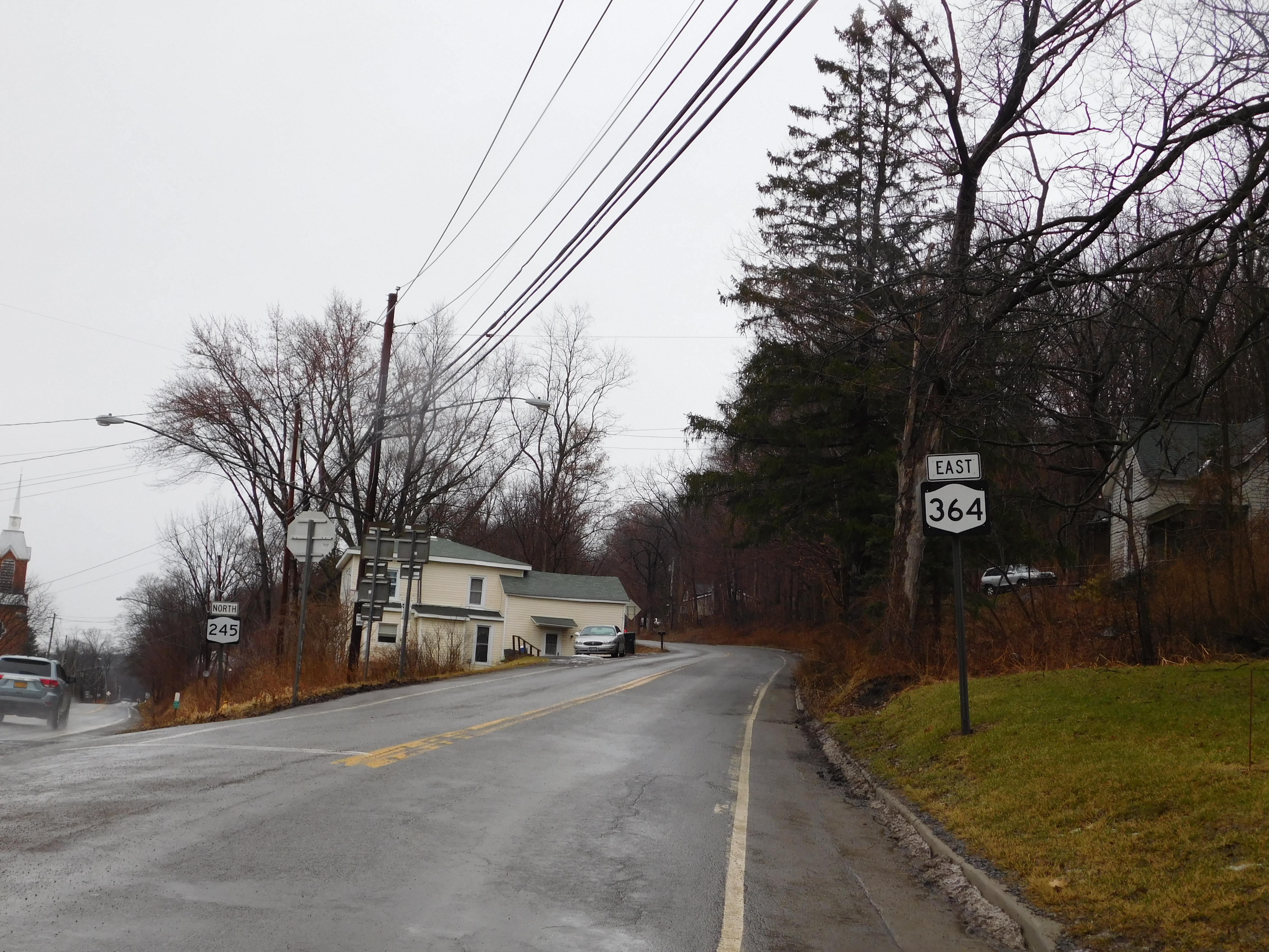 New York State Route 364 at the split from New York State Route 245 in Middlesex, New York.